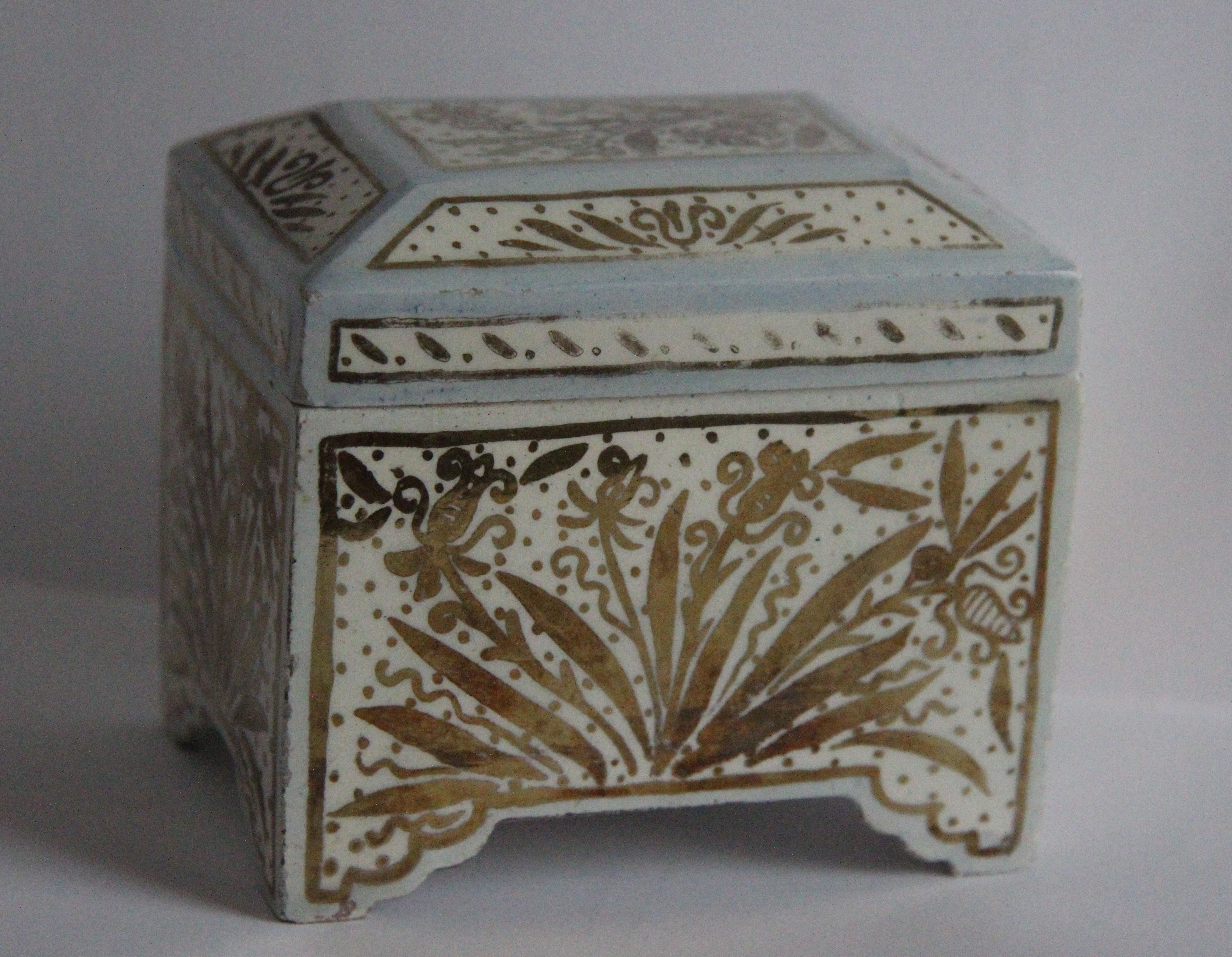 Box by Emma Fabri dimensions mm 67 x 95 H 90